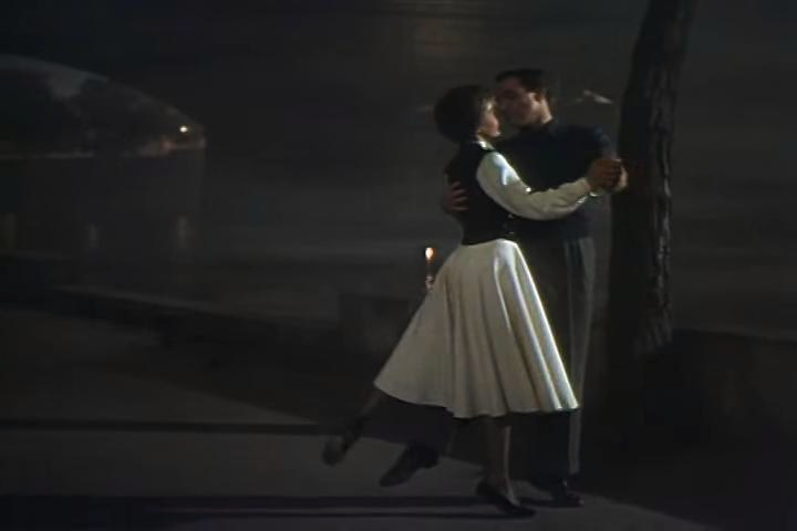 Leslie Caron & Gene Kelly in An American in Paris - trailer (cropped screenshot)